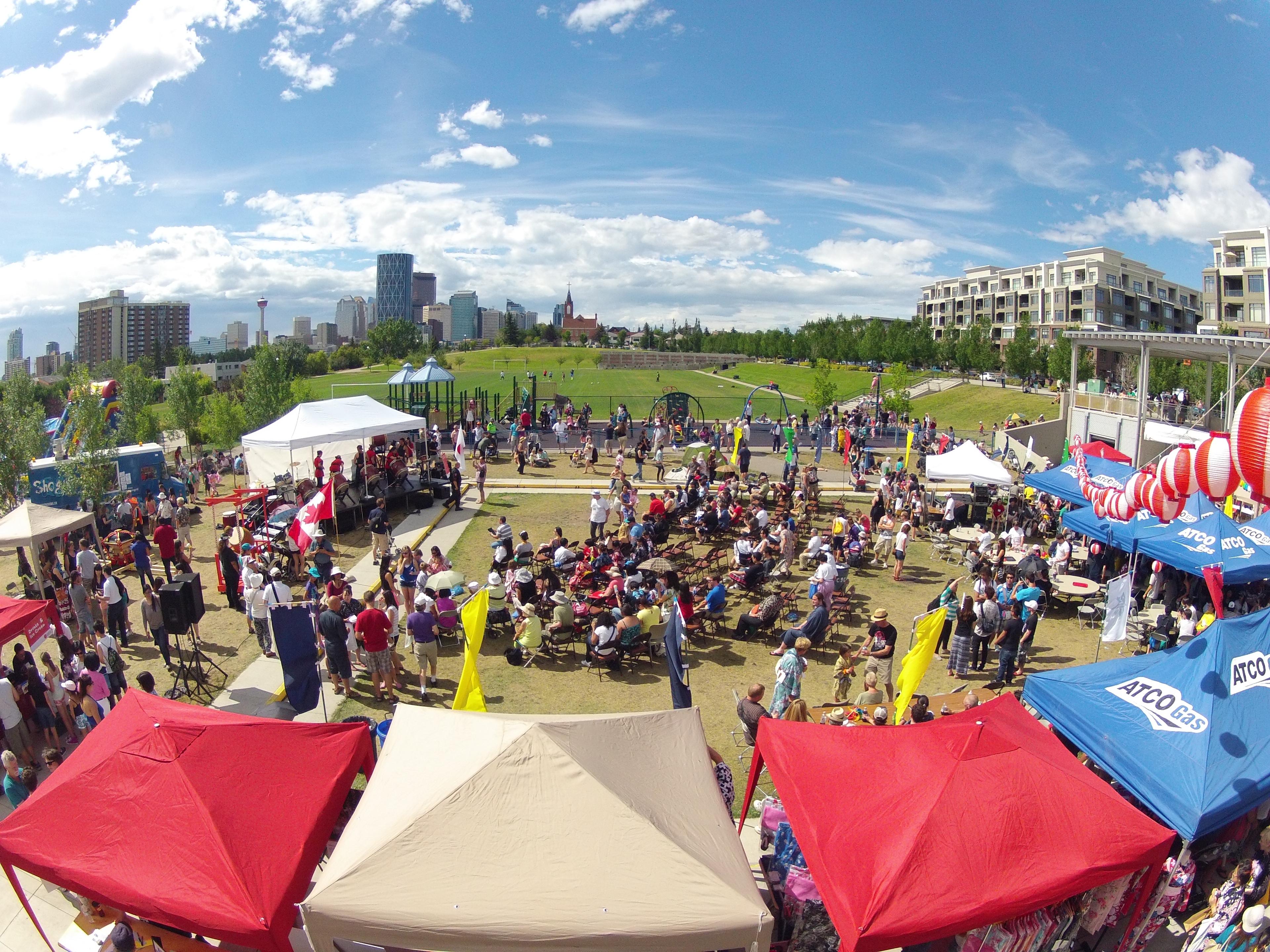 Calgary Japanese Festival Omatsuri in Bridgeland